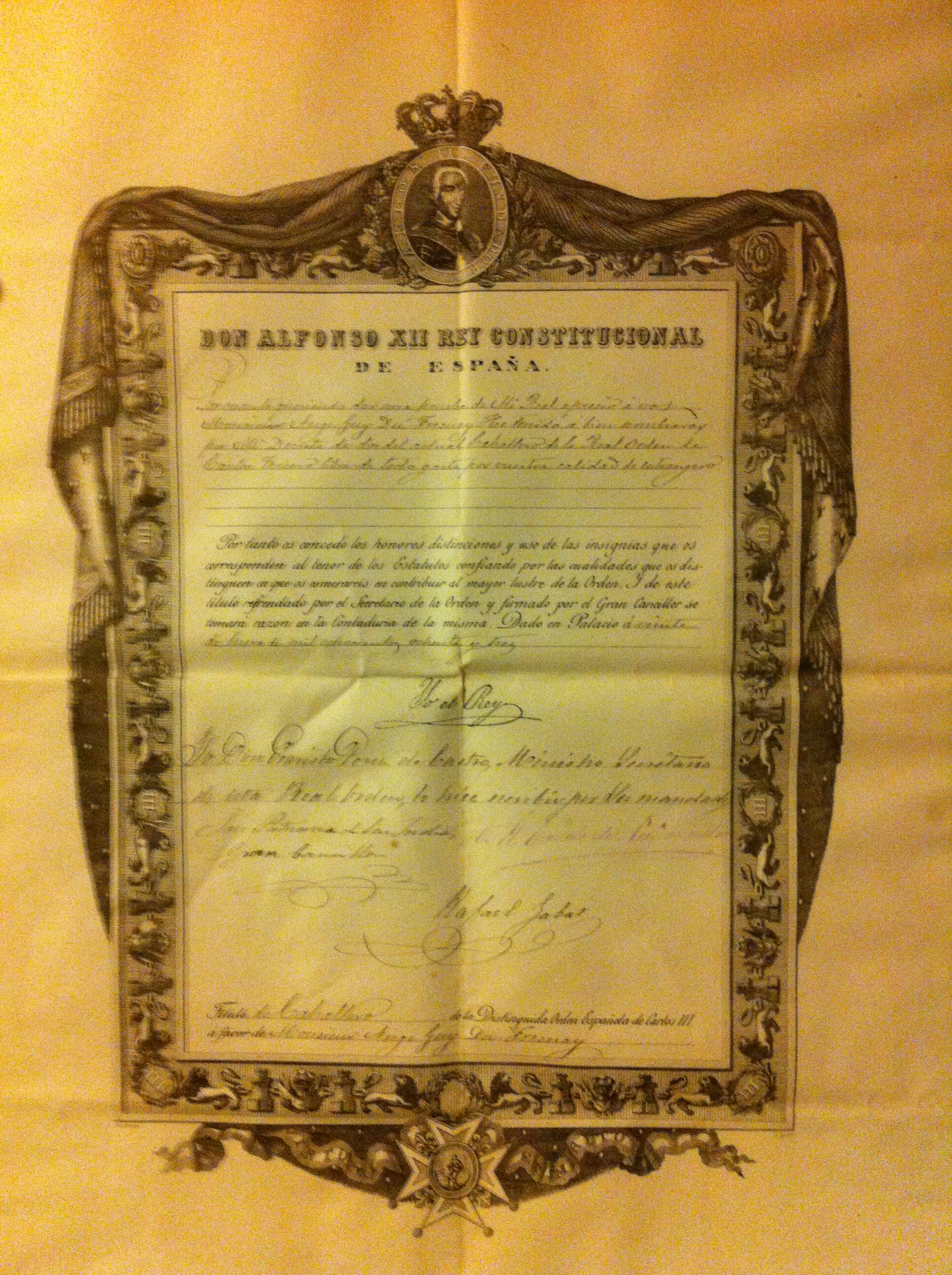 Royal edit bearing the seal of the King of Spain and granting French civilian Ange du Fresnay the title of Knight of the order of Charles III (1885)